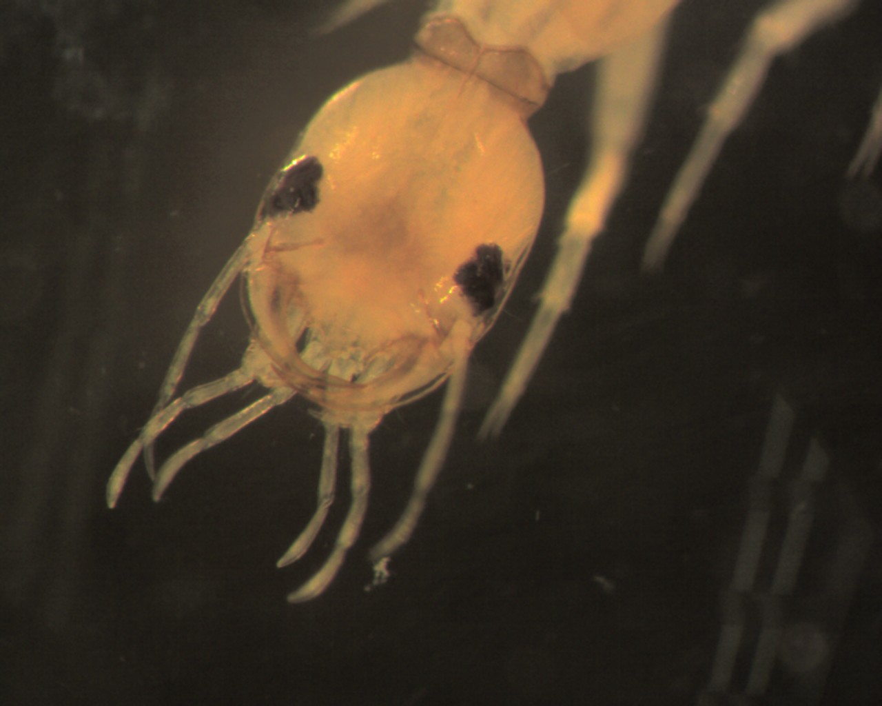 O: Coleoptera F: Gyrinidae